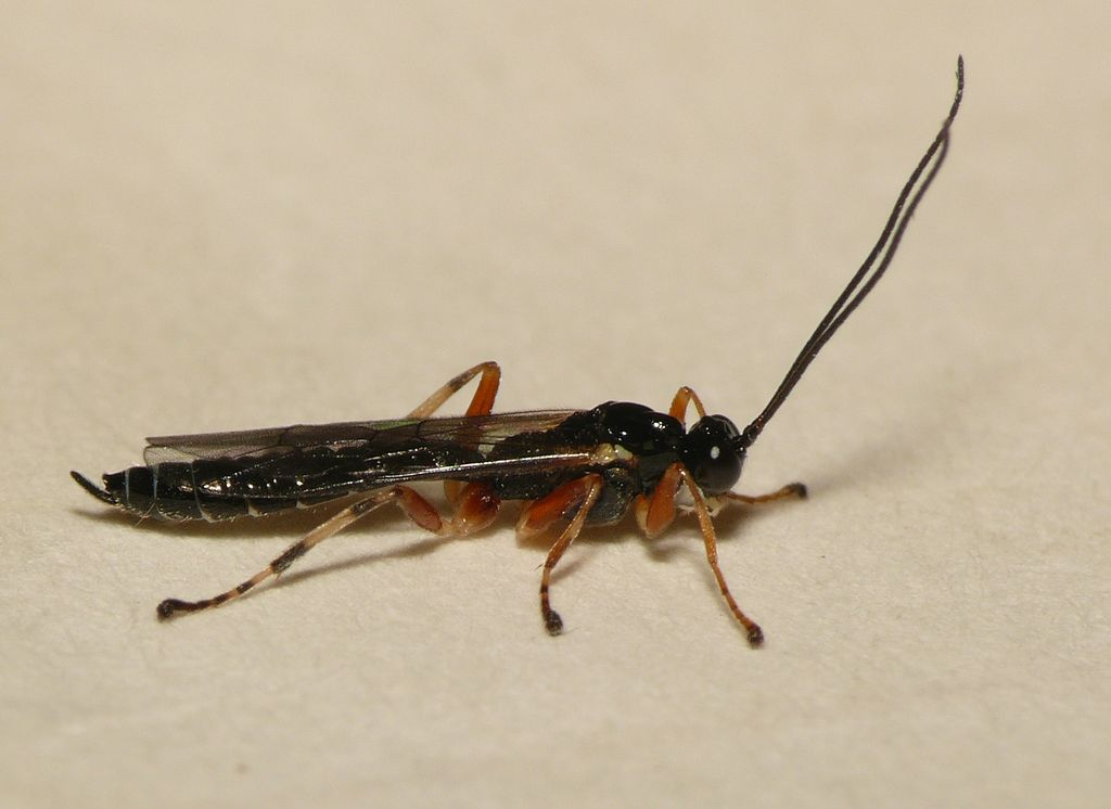 Live adult female Acrodactyla quadrisculpta (RMNH.INS.593867).